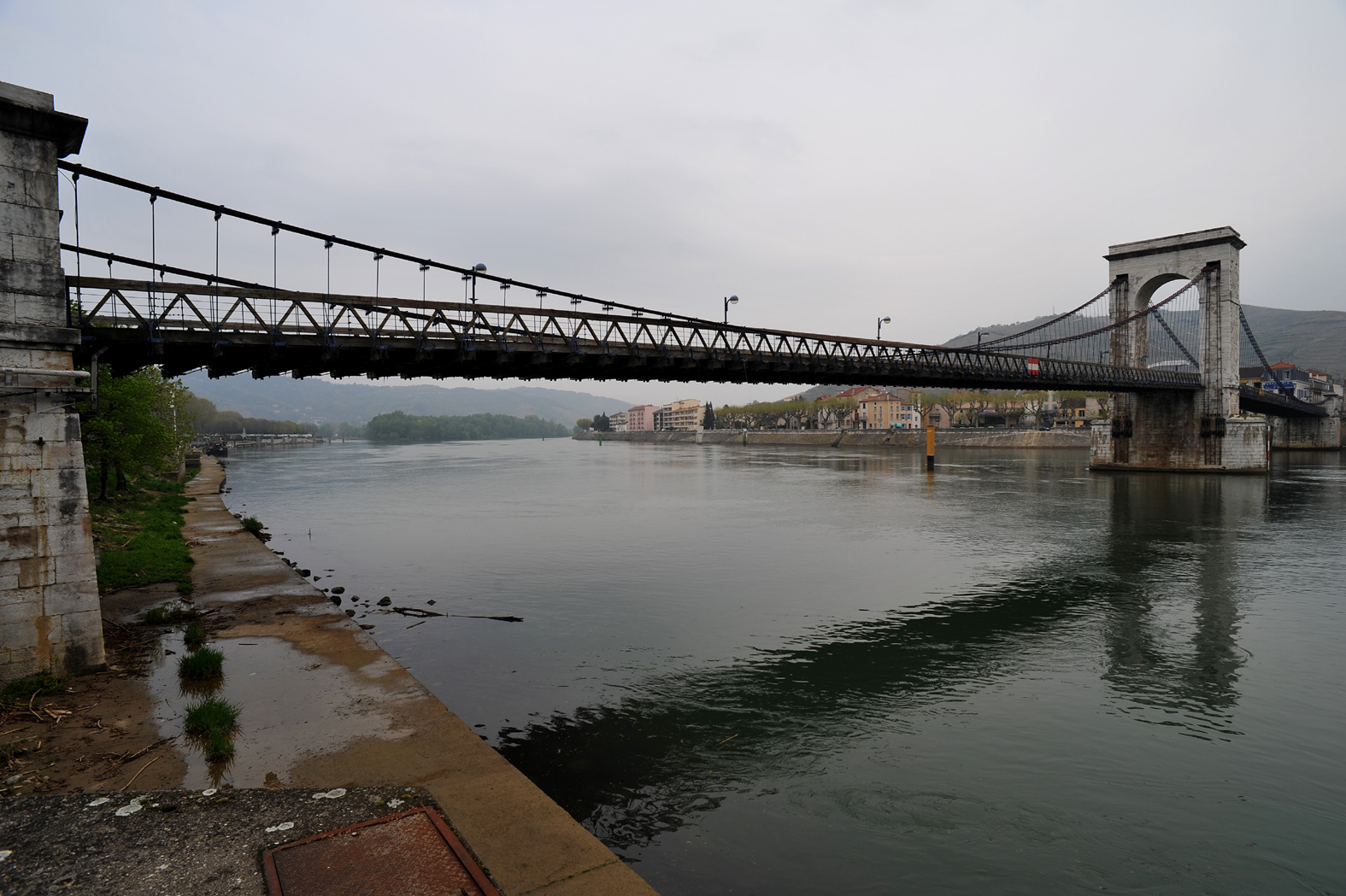 Seguin bridge, joining Tournon-sur-Rhône and Tain-l'Hermitage; Ardèche/Drôme, France.